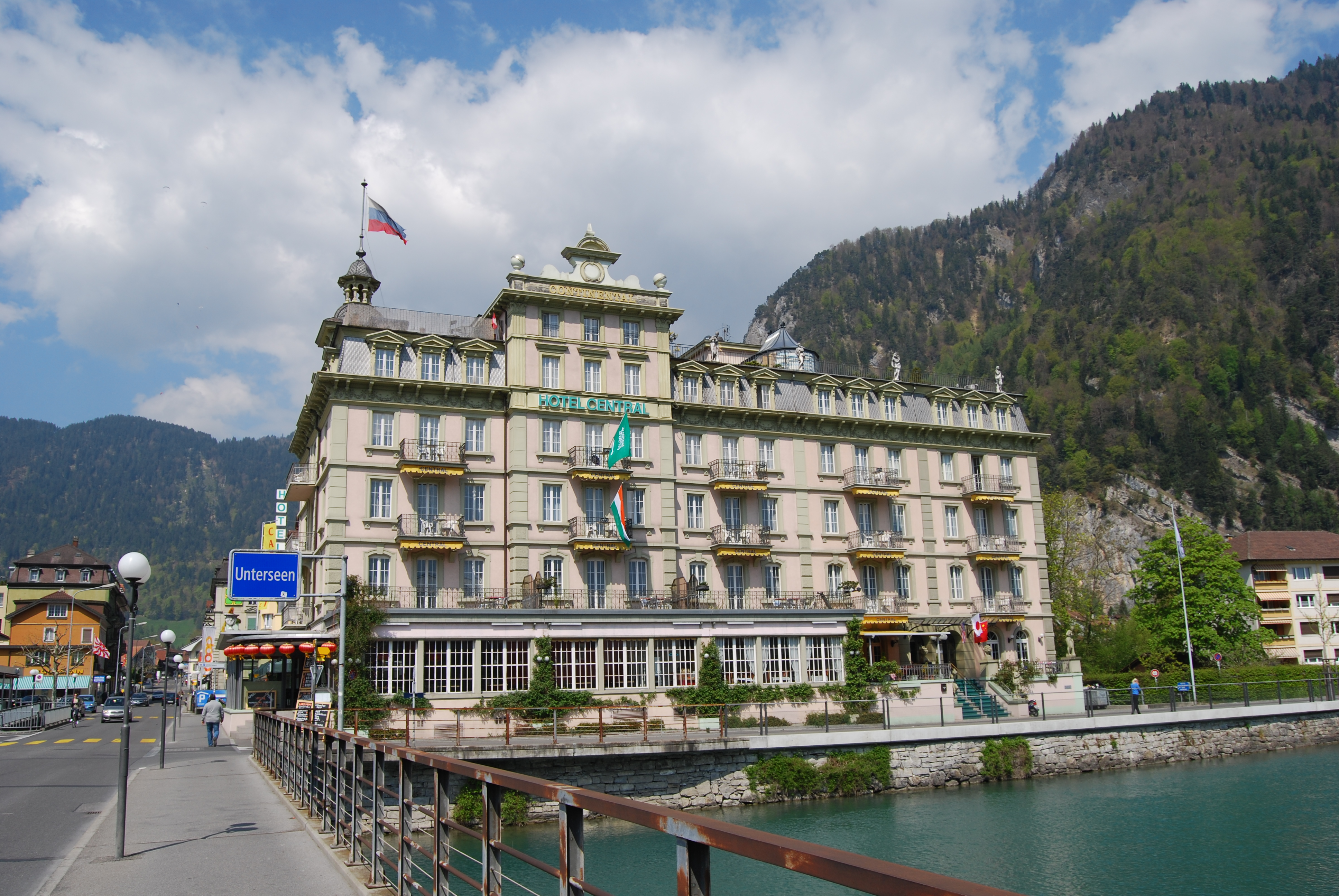 Hotel Central at Unterseen, canton of Bern, SwitzerlandEsperanto: Hotelo Central en Unterseen, Kantono Berno, Svislando